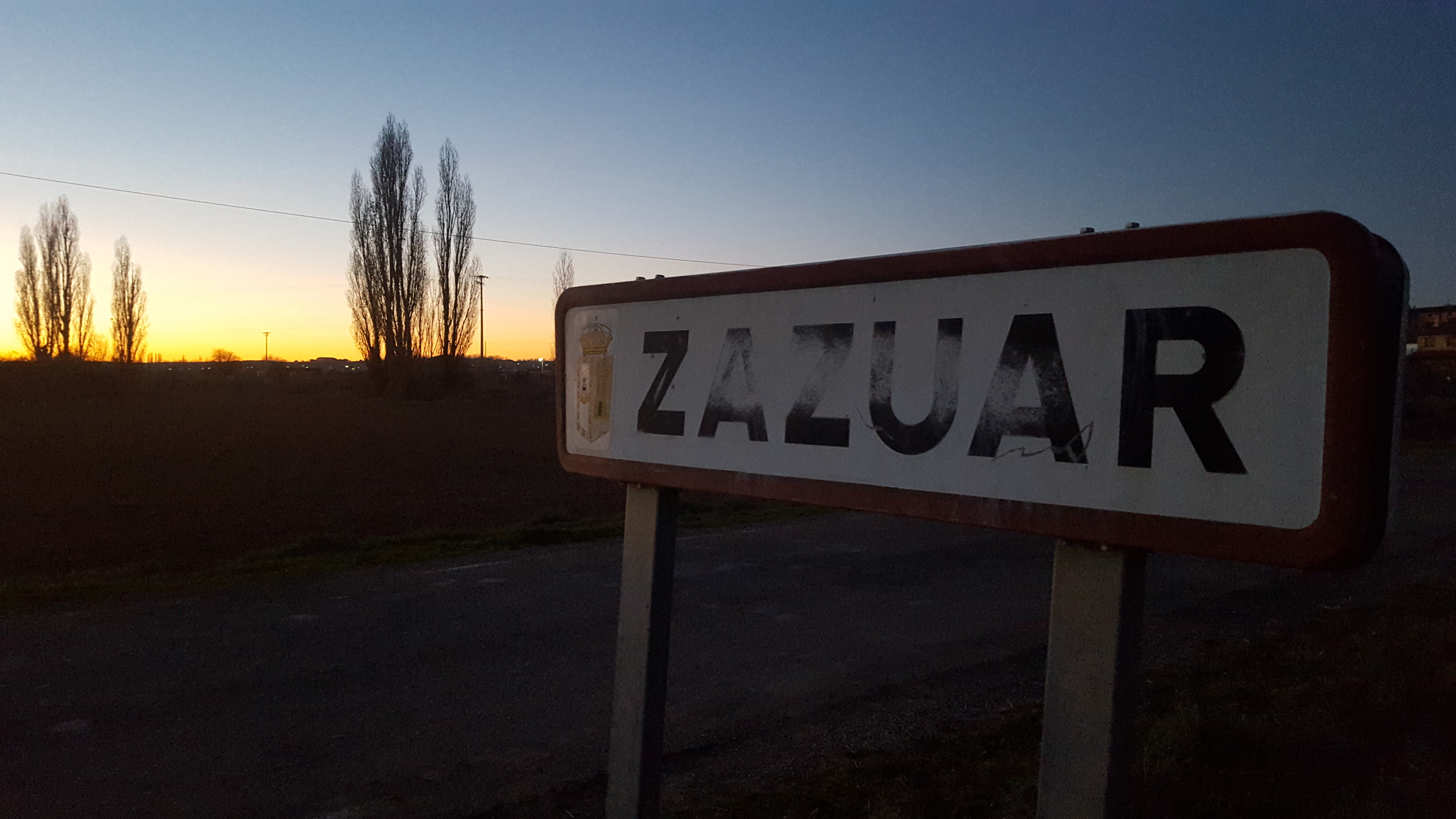 Letrero entrada población